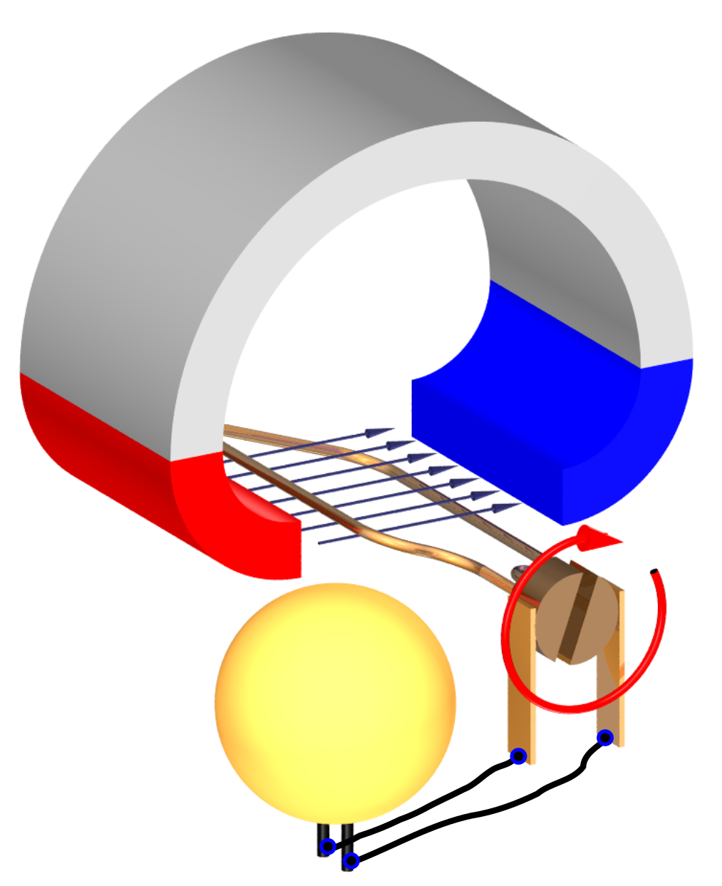 Principle for an inductive generator